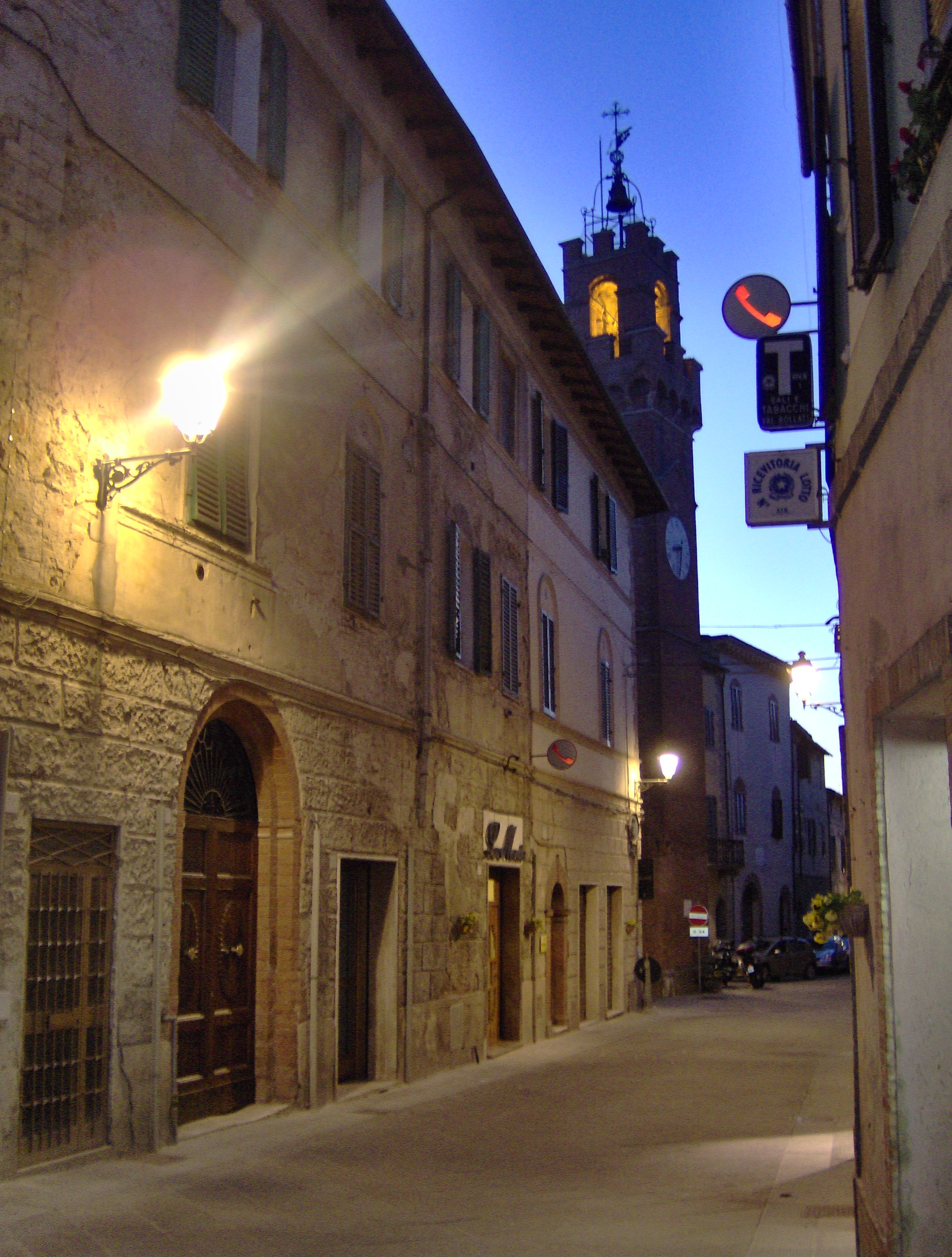 The street Corso Giacomo Matteotti, one of the main streets in the centre of Asciano, province of Siena, Italy, by sunset.